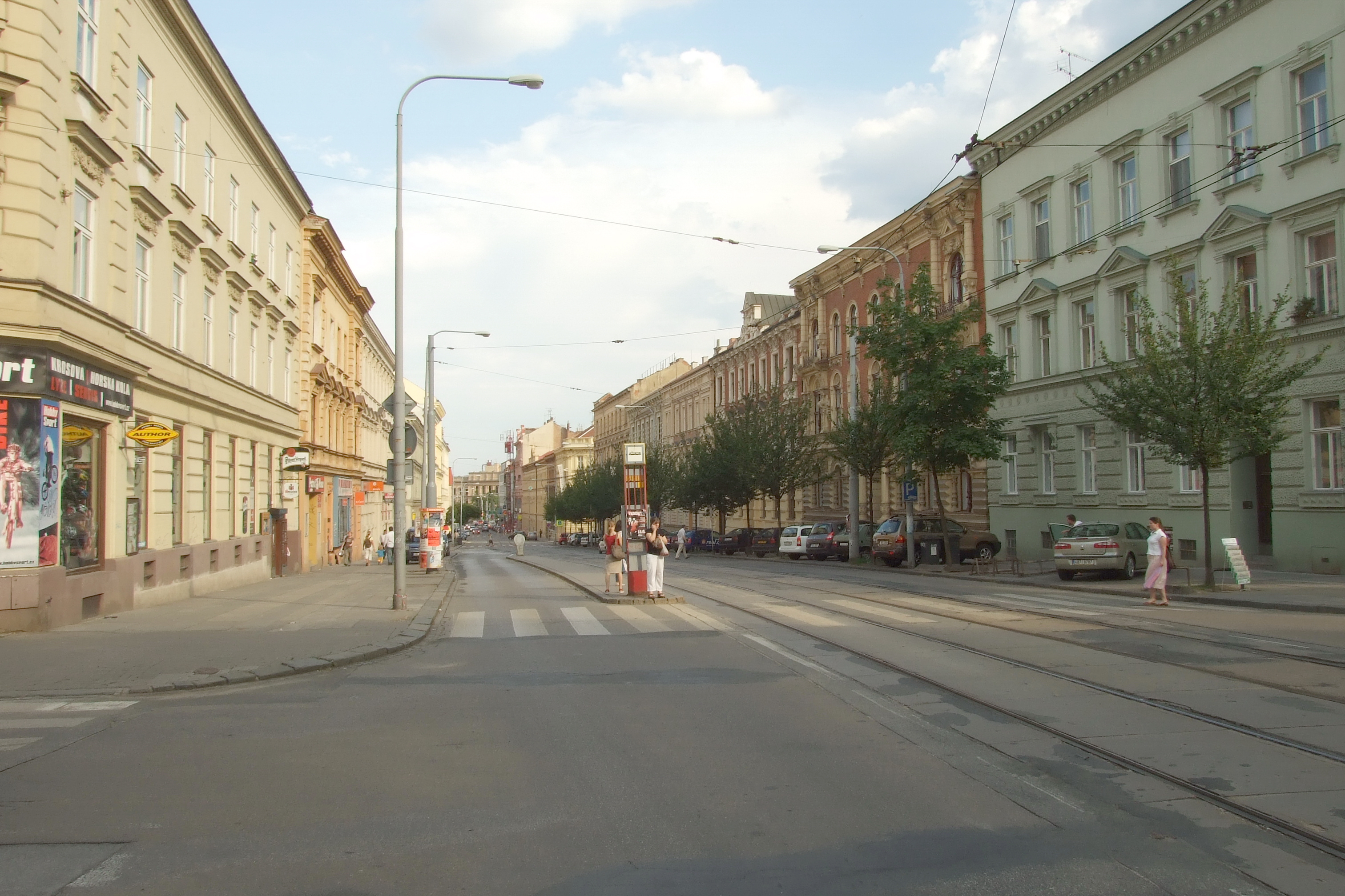 Brno-Veveří - southern part of Veveří street